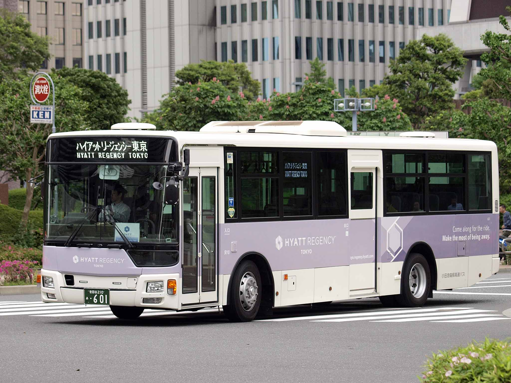 Fleet of Odakyu Hakone Highway Bus, as shuttle bus of Hyatt Regency Tokyo from Shinjuku Station. Model: Mitsubishi Fuso Aero Star QKG-MP35FP License plate: TKG230 A0601 Place: Nishi-shinjuku, Shinjuku Ward, Tokyo Japan